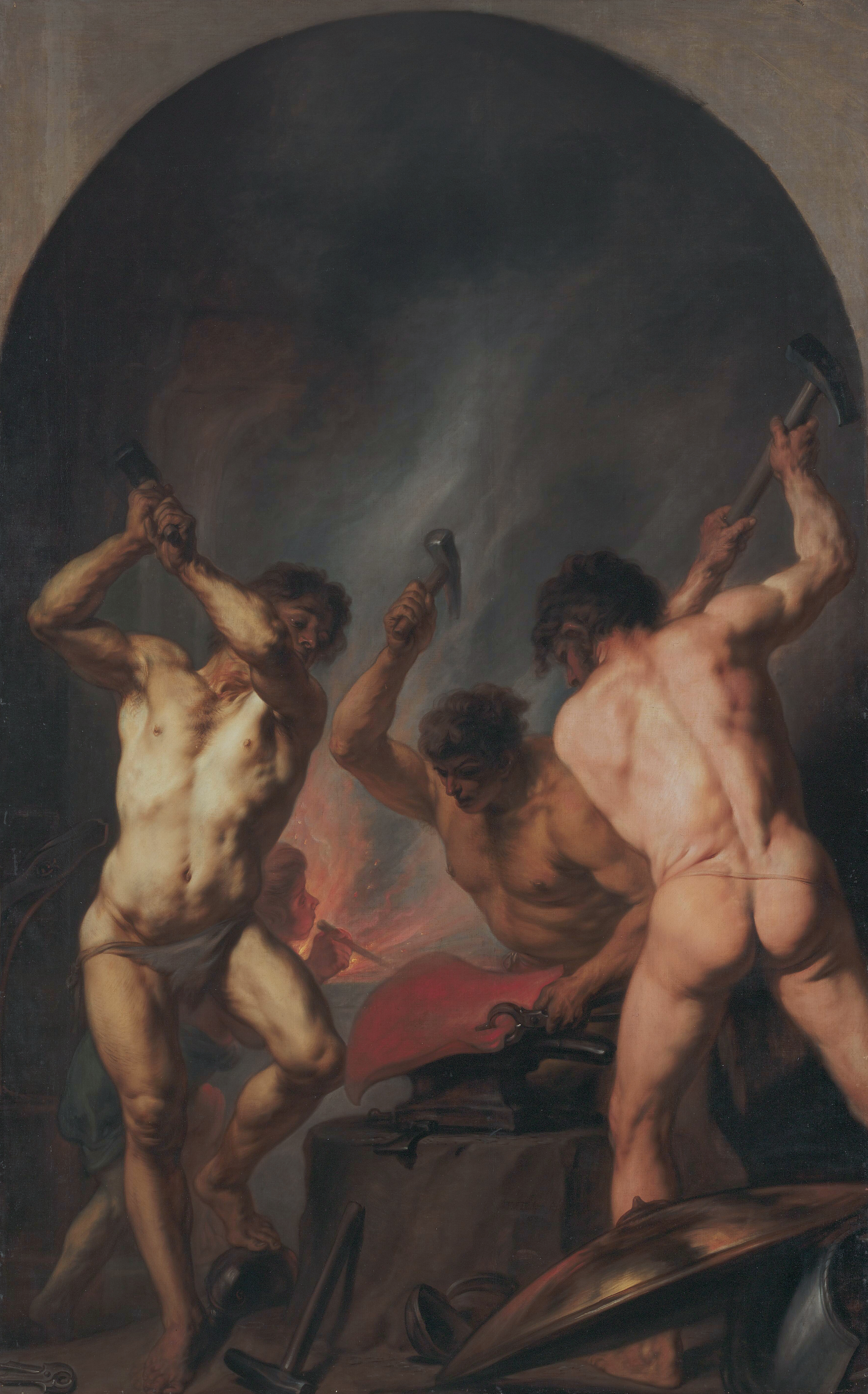 The Forge of Vulcan oil on canvas 384 x 238 cm signed b.c.: T.v.Thulden fect. / 1649